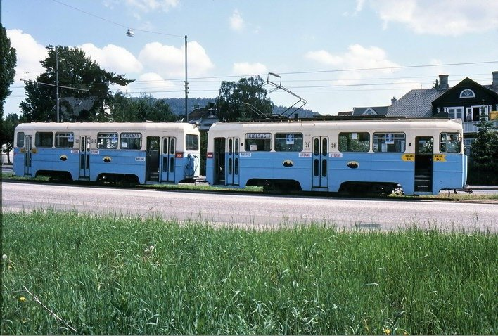 MO and TO tram at Storoveien